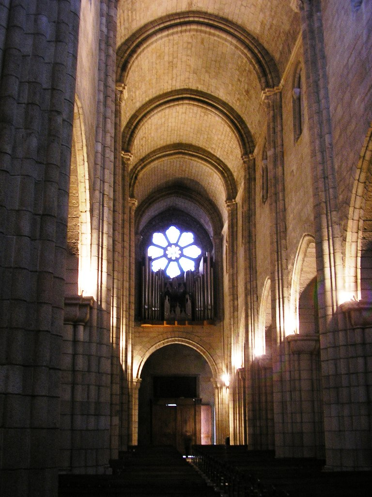 Interior of Porto's cathedral ("Sé"), in Portugal. Author: Manuel de Sousa.